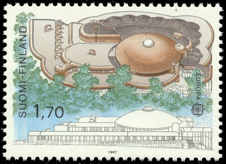 Postage stamp depicting the main building of the Tampere City Library ("Metso"), designed by Raili & Reima Pietilä